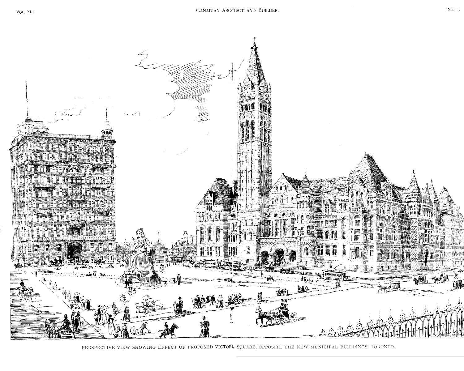 Perspective view showing effect of proposed Victoria Square, Toronto, Canada, with a planned statue of Queen Victoria in its centre. The Temple Building (left) and City Hall (right) are shown. Victoria Square was never constructed.